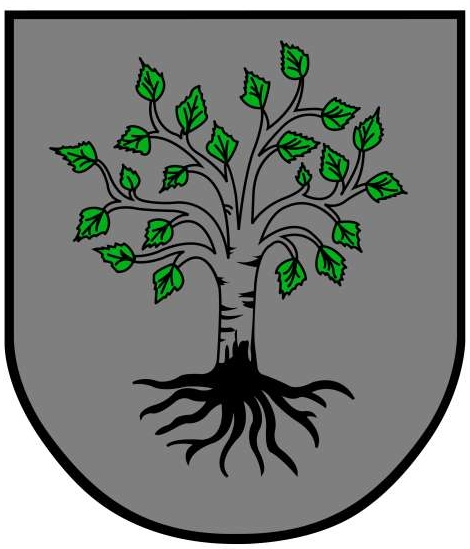 coat of arms of Birkfeld, Steiermark